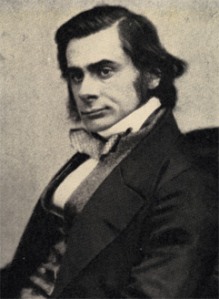 Huxley at 32; photo. Bibby's title for this one is 'the Young Eagle'.